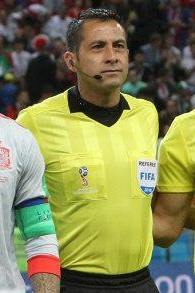 Iran and Spain match at the FIFA World Cup 2018